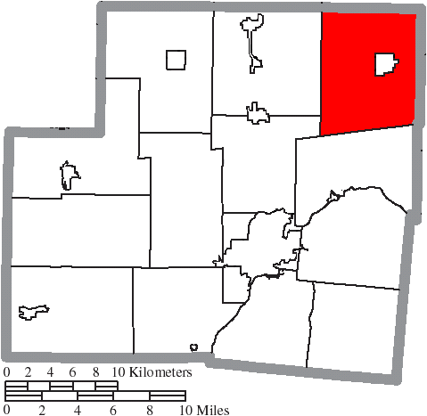 Map of the municipal and township boundaries of Shelby County, Ohio, United States, as of the 2000 census, with the location of Jackson Township highlighted. Township borders are shown only in unincorporated areas in order to differentiate incorporated and unincorporated areas more clearly.